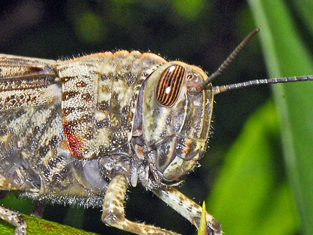 Close-up of Anacridium aegyptium. Piani di Praglia, Gemova, Italy